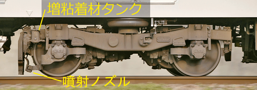 An adhesion increasing device CERAJET on the Kinki Sharyo Type KD306 truck of Kintetsu 1252 series ( Mo 1276 ).